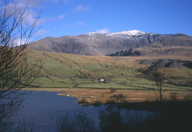 Llyn Cwellyn. Llyn Cwellyn and Snowdon from SH562543